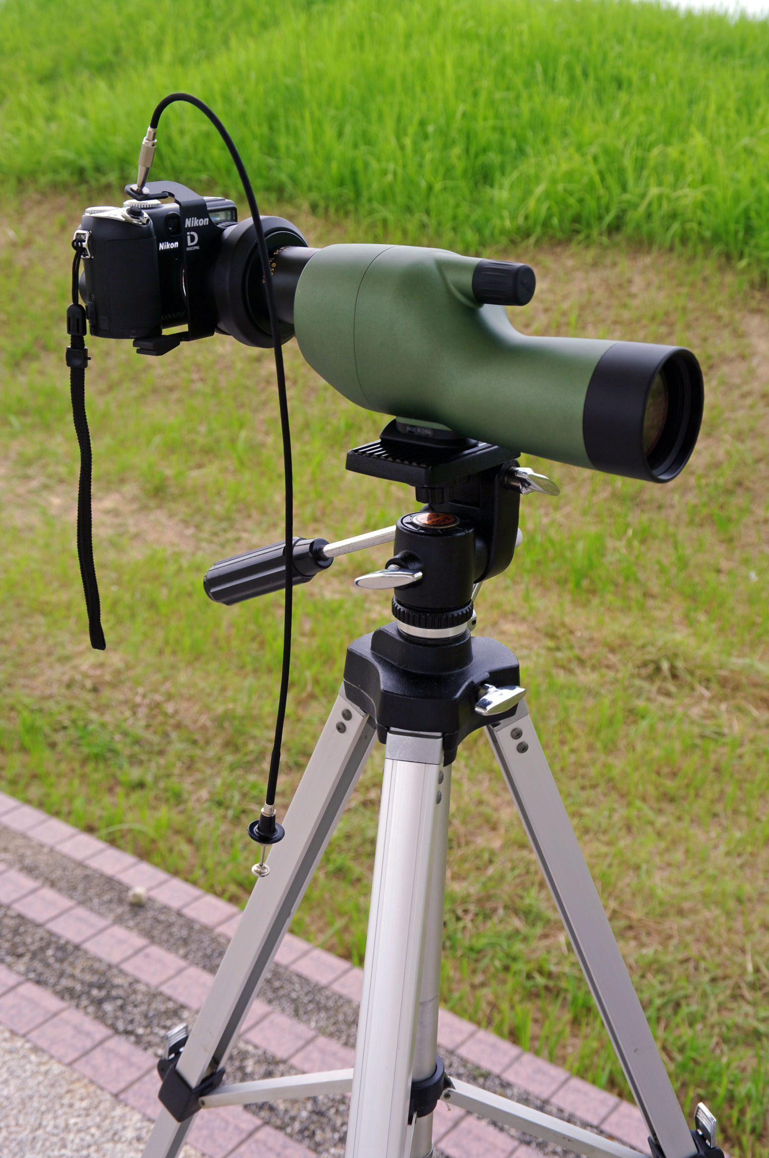 Nikon digiscoping set (FIELDSCOPE ED50 and COOLPIX P5000)